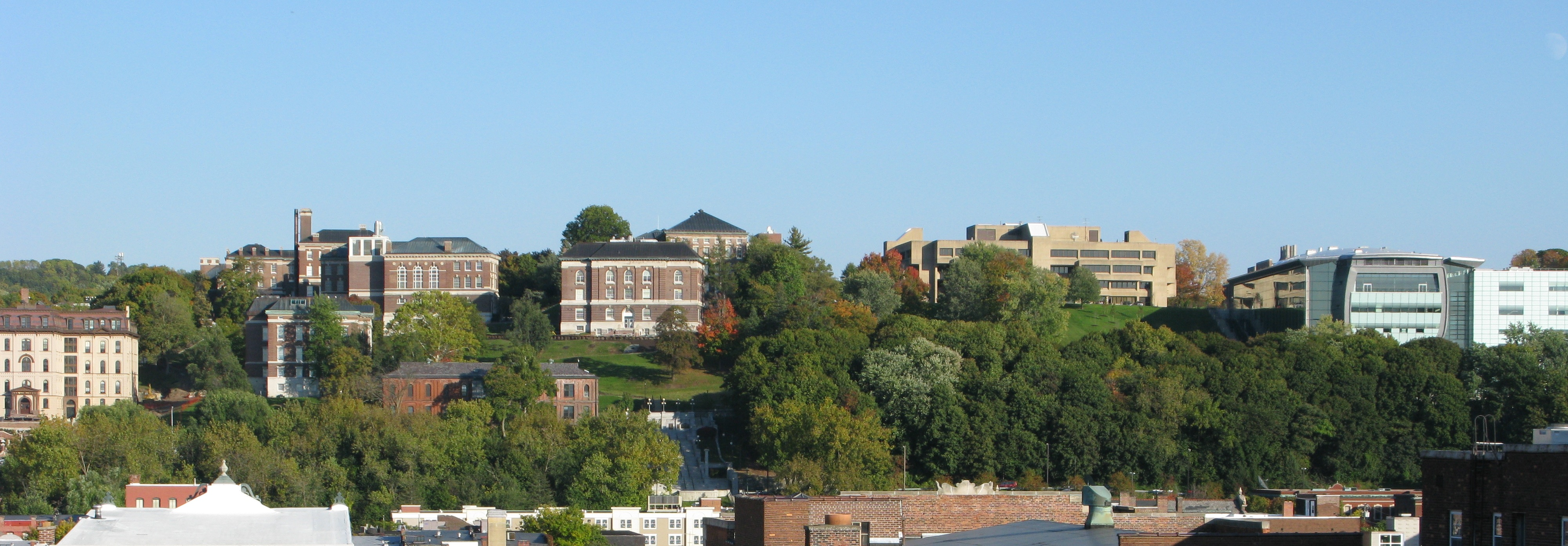 View of Rensselaer Polytechnic Institute from downtown Troy, New York, United States